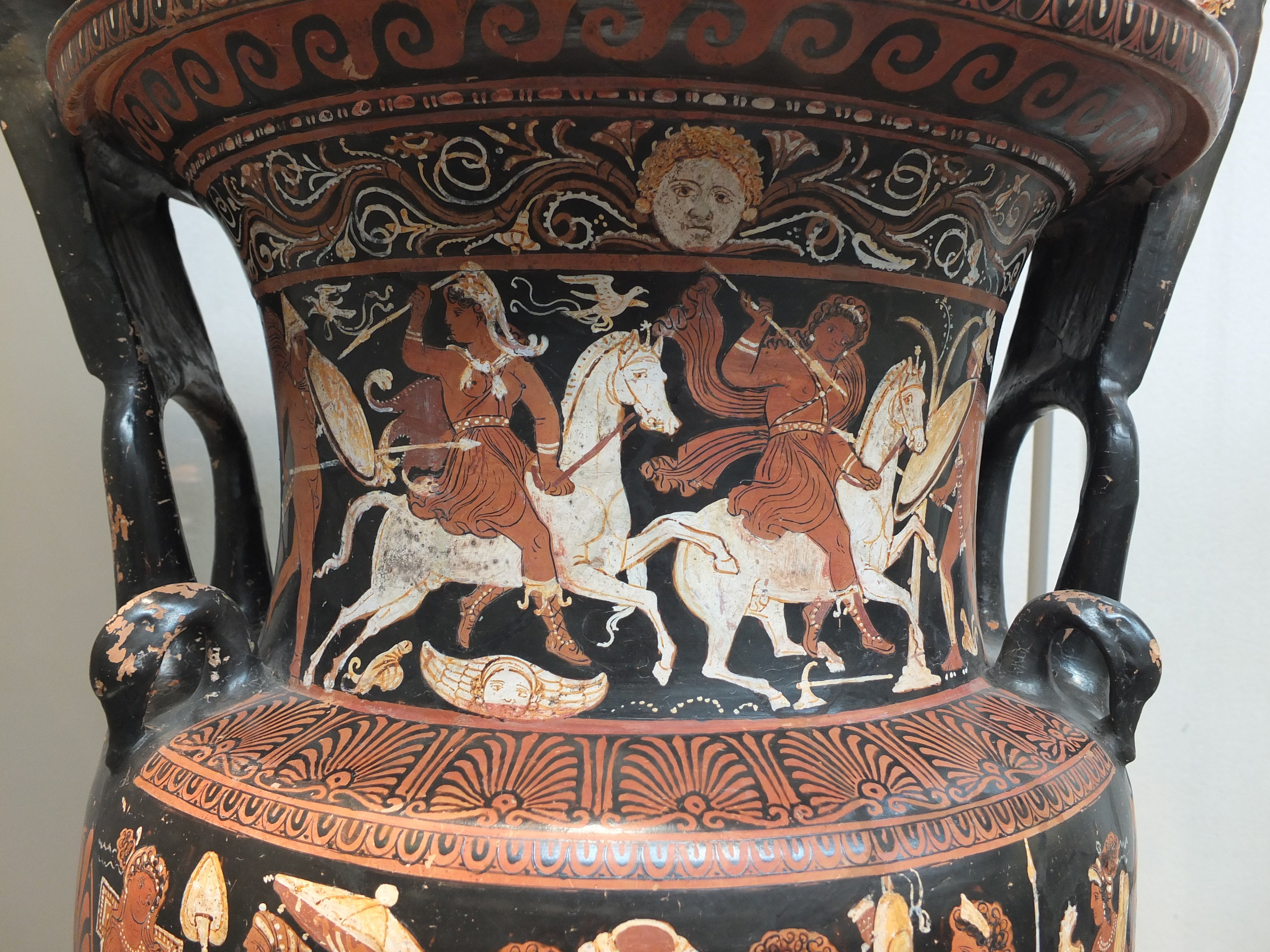 Krater with volutes in terracotta. Greek art from Southern Italy, ca. 330-320 BC. Musée Royal de Mariemont